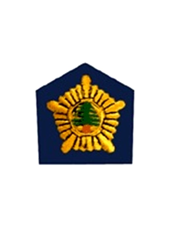 Lebanese Army's Insignia of Adjutant (Non-commissioned Officer Rank)